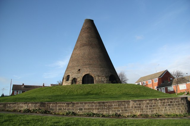 Glassworks cone at Catcliffe, South Yorkshire, England. One of two built in 1740 for William Fenney. The other has not survived. The 70ft-high brick furnace was worked until early in the 20th century. It was used as a prison in the First World War and as a canteen in the 1926 General Strike